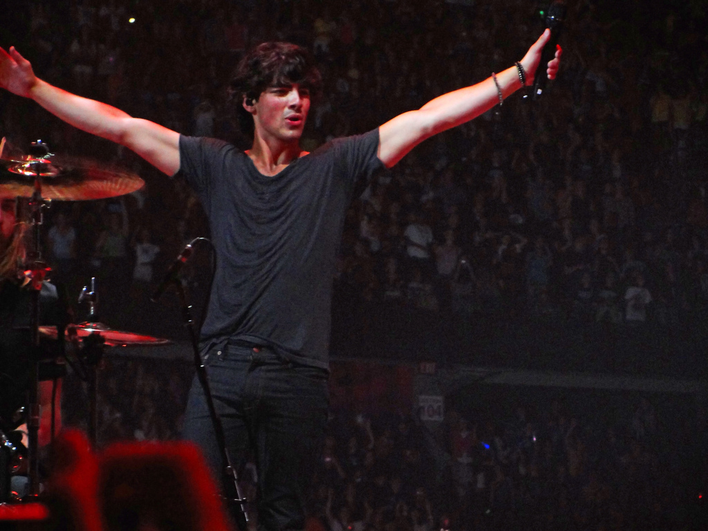 Jonas Brothers Concerts 2009